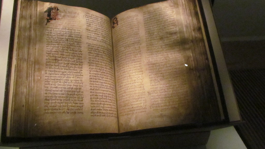 commemorating the marriage of Katherine to Finghin mac Carthy Reagh.